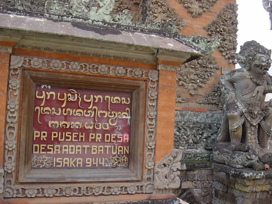 Sign in Balinese and Latin script at Pura Puseh Temple in Batuan, near Ubud on Bali.DSC05153